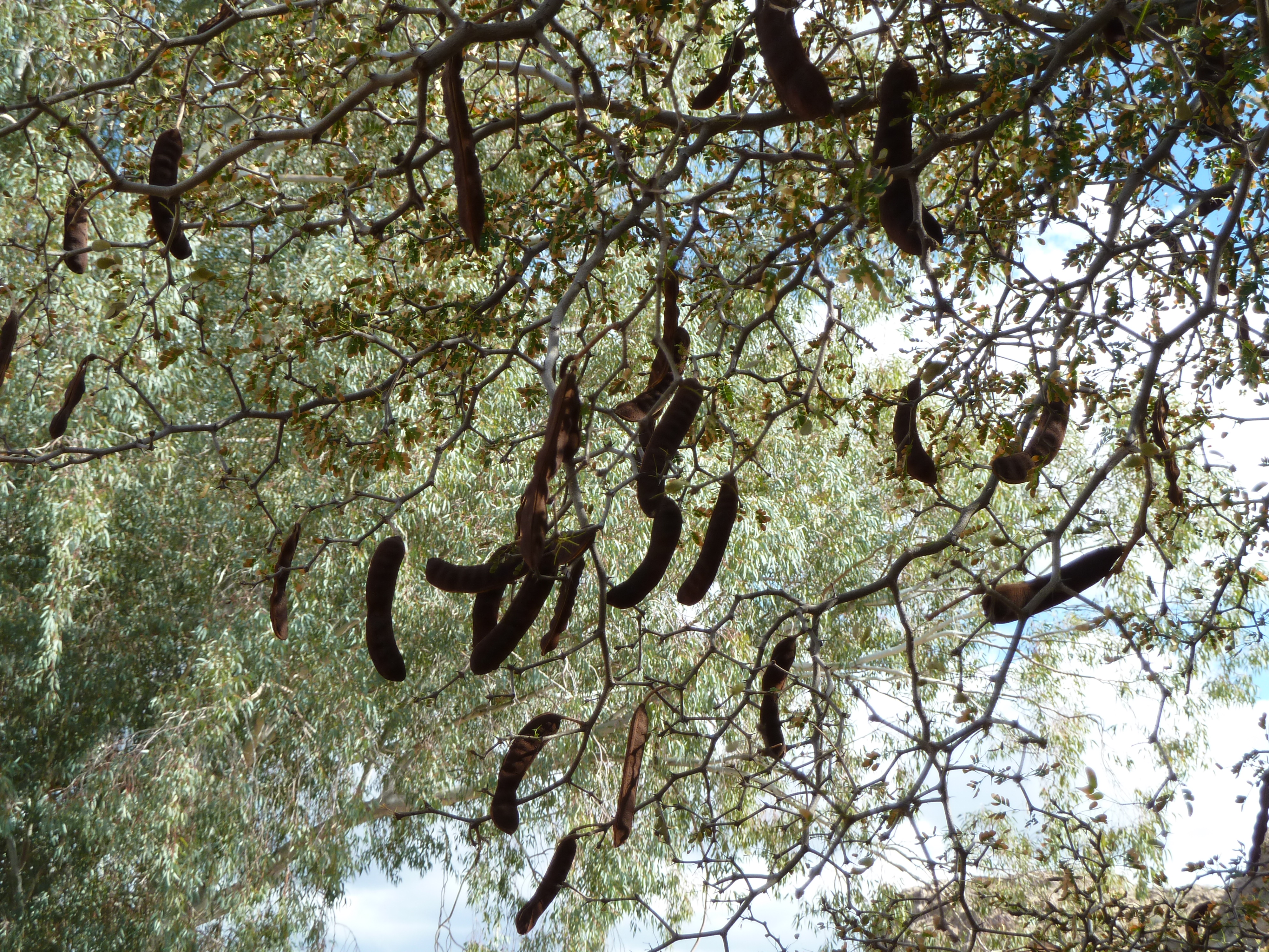 Ebenopsis ebano, Texas Ebony, at Boyce Thompson Arboretum, an hour east of Phoenix, AZ.